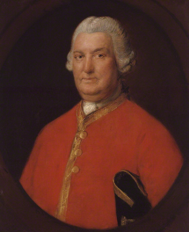 General Stringer Lawrence (1697-1775)